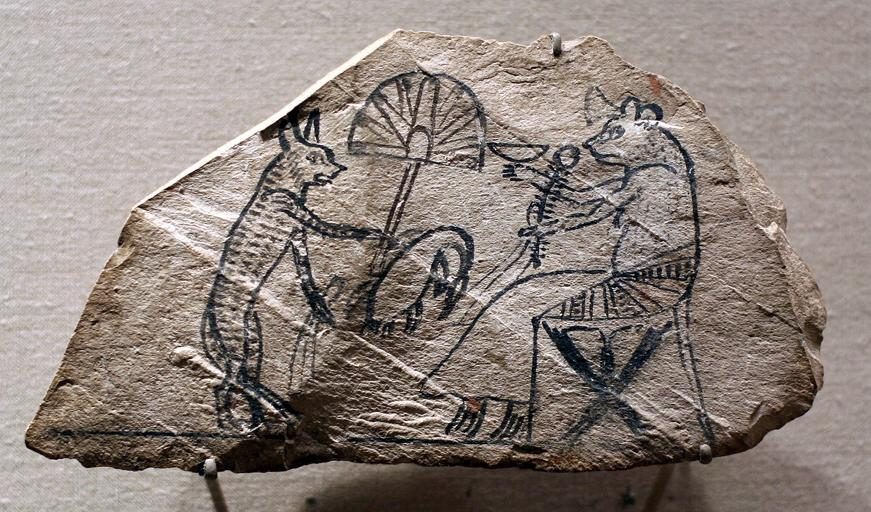 Figured Ostracon Showing a Cat Waiting on a Mouse, ca. 1295-1070 B.C.E. Limestone, pigment, 3 1/2 x 6 13/16 x 7/16 in. (8.9 x 17.3 x 1.1 cm). Brooklyn Museum, Charles Edwin Wilbour Fund, 37.51E.